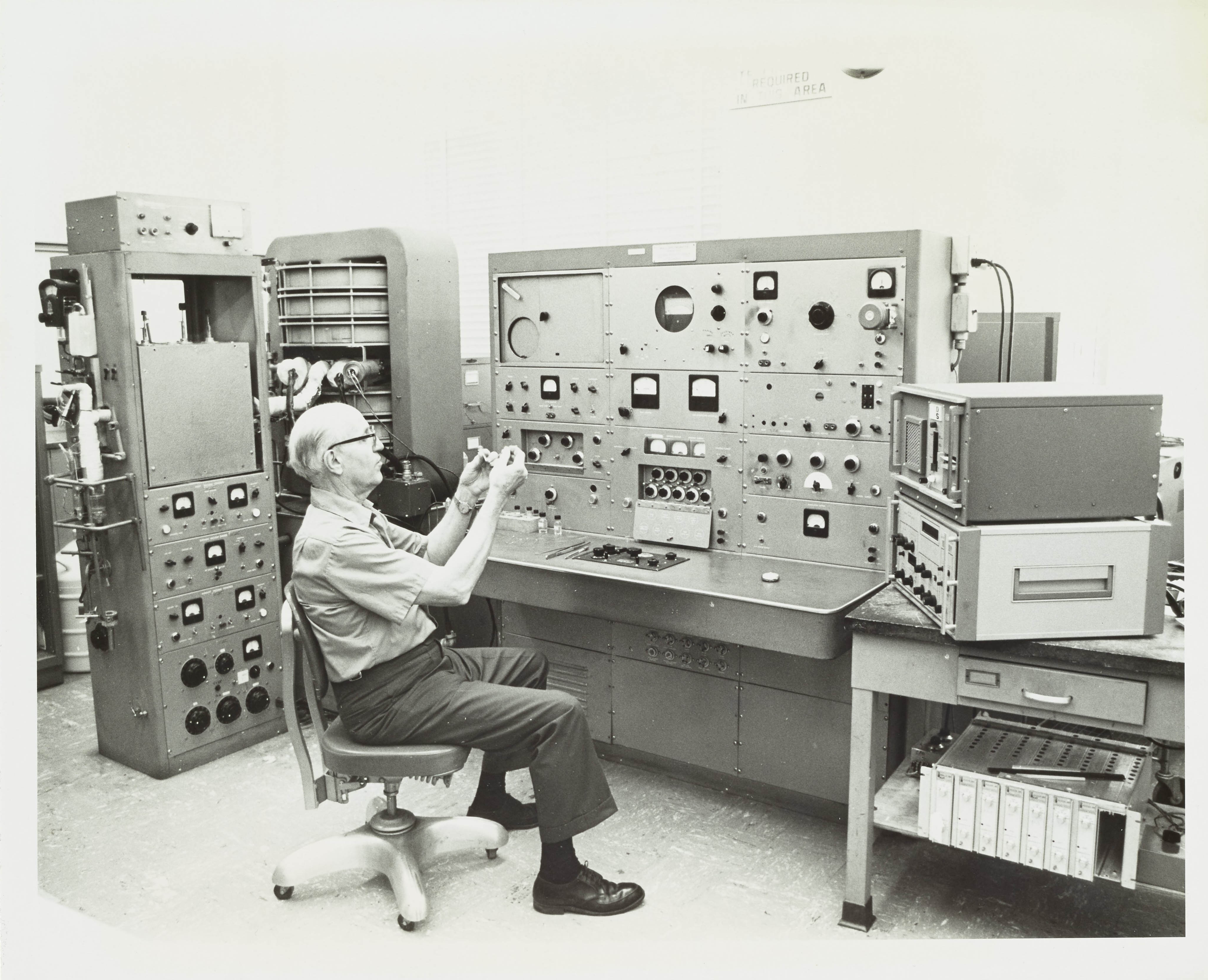 Consolidated Engineering Corporation Model 21-103 Mass Spectrometer in use at the Exxon Research and Engineering Company analytical research laboratory located in Baytown, Texas. Laboratory Technician Glyn R. Taylor is seen preparing a sample for insertion into the mass spectrometer's heated inlet system.